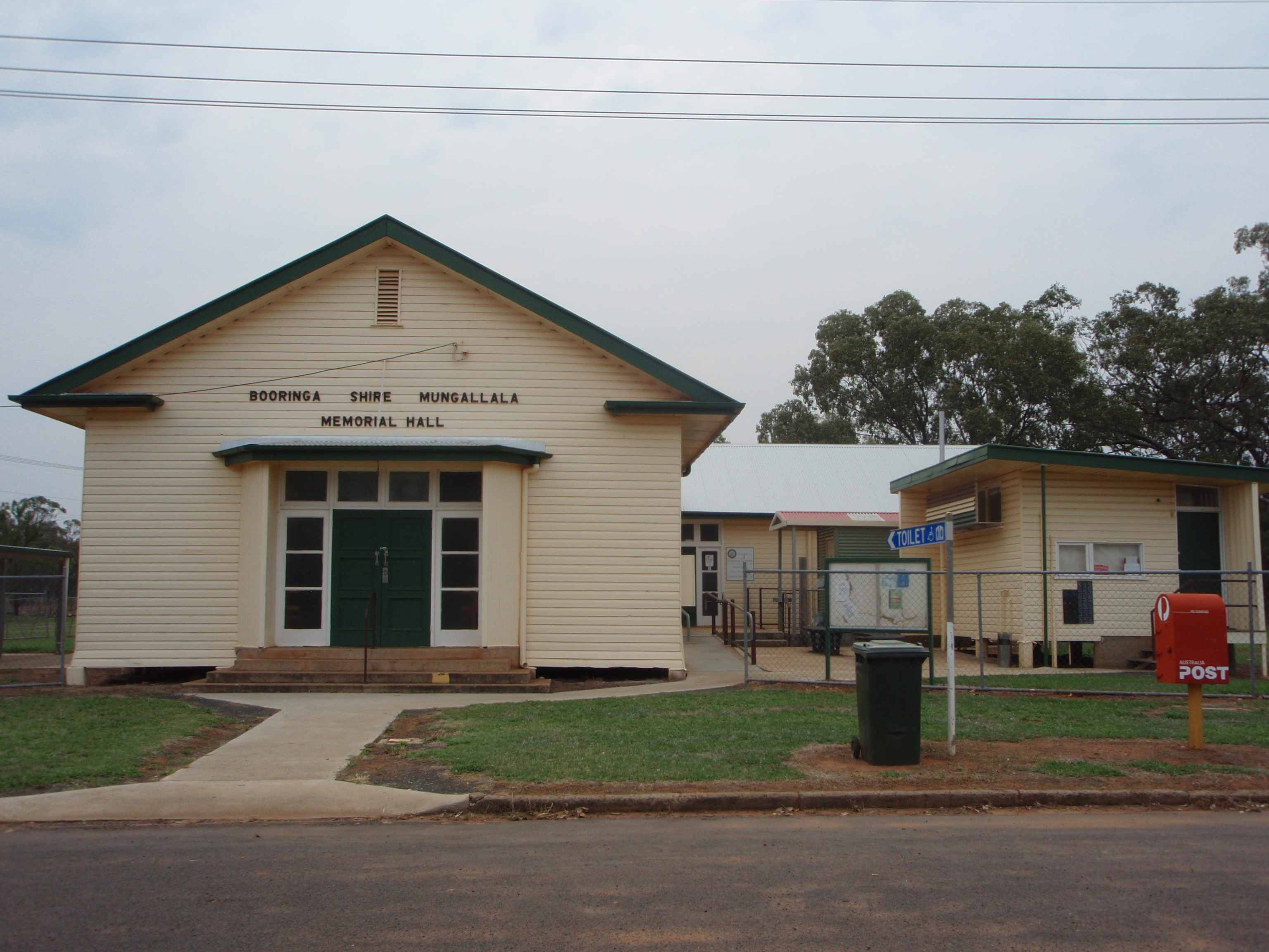 Mungallala Library